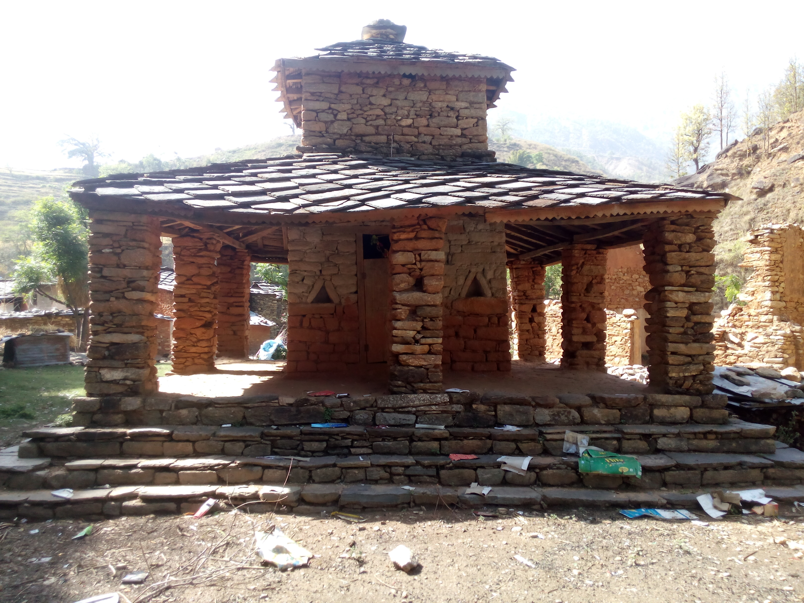 नेपाली: This is the property of Krishna Bahadur Chand Sodari from Kalagaun-07, Achhham